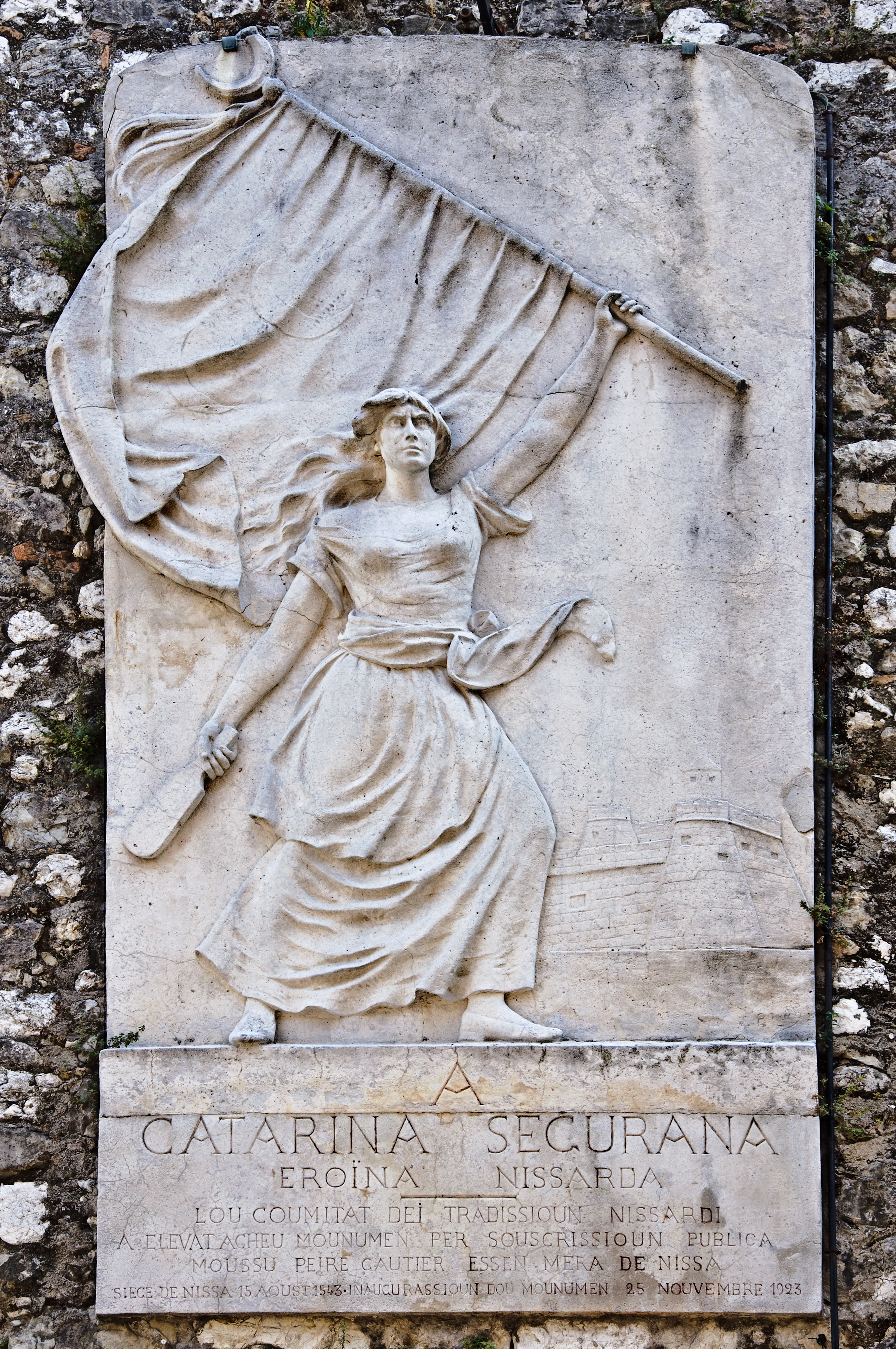 Monument to Catherine Ségurane in the old town of Nice, French Riviera.